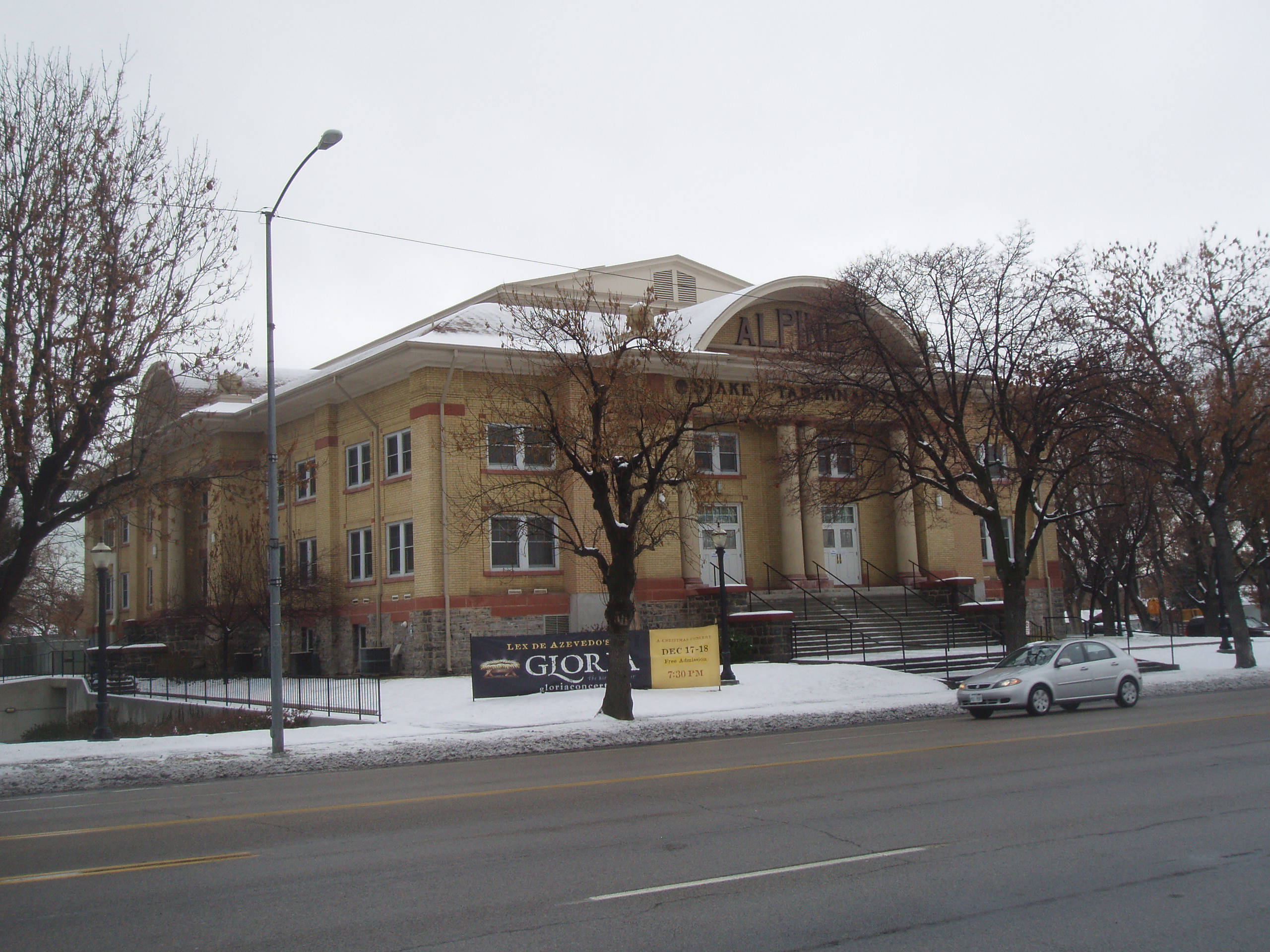 The Alpine Stake Tabernacle, an early Latter-day Saint meetinghouse located at Main and 100 East, American Fork, Utah, United States.